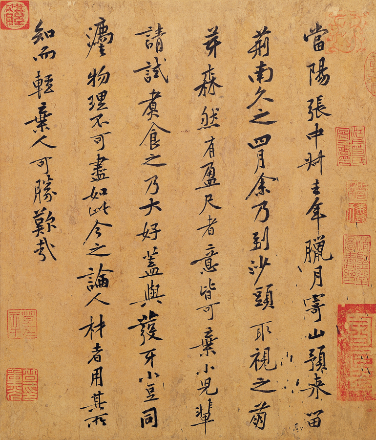 On Sweet Potatoes Huang Tingjian (1045-1105), Song dynasty Album leaf, ink on paper, 31.2 × 26.8 cm This leaf is from the album "Collection of the Four Song Masters."